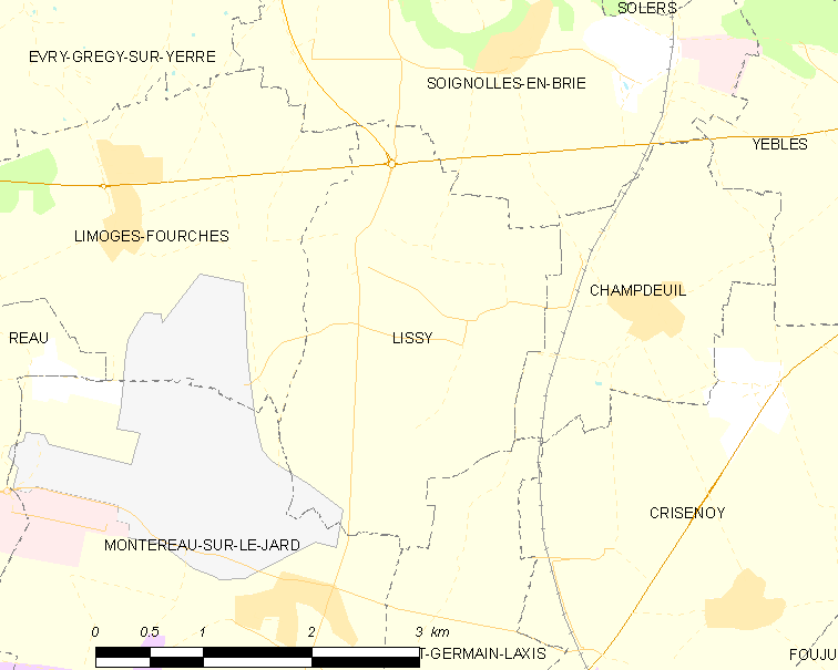 Map of French municipality Lissy